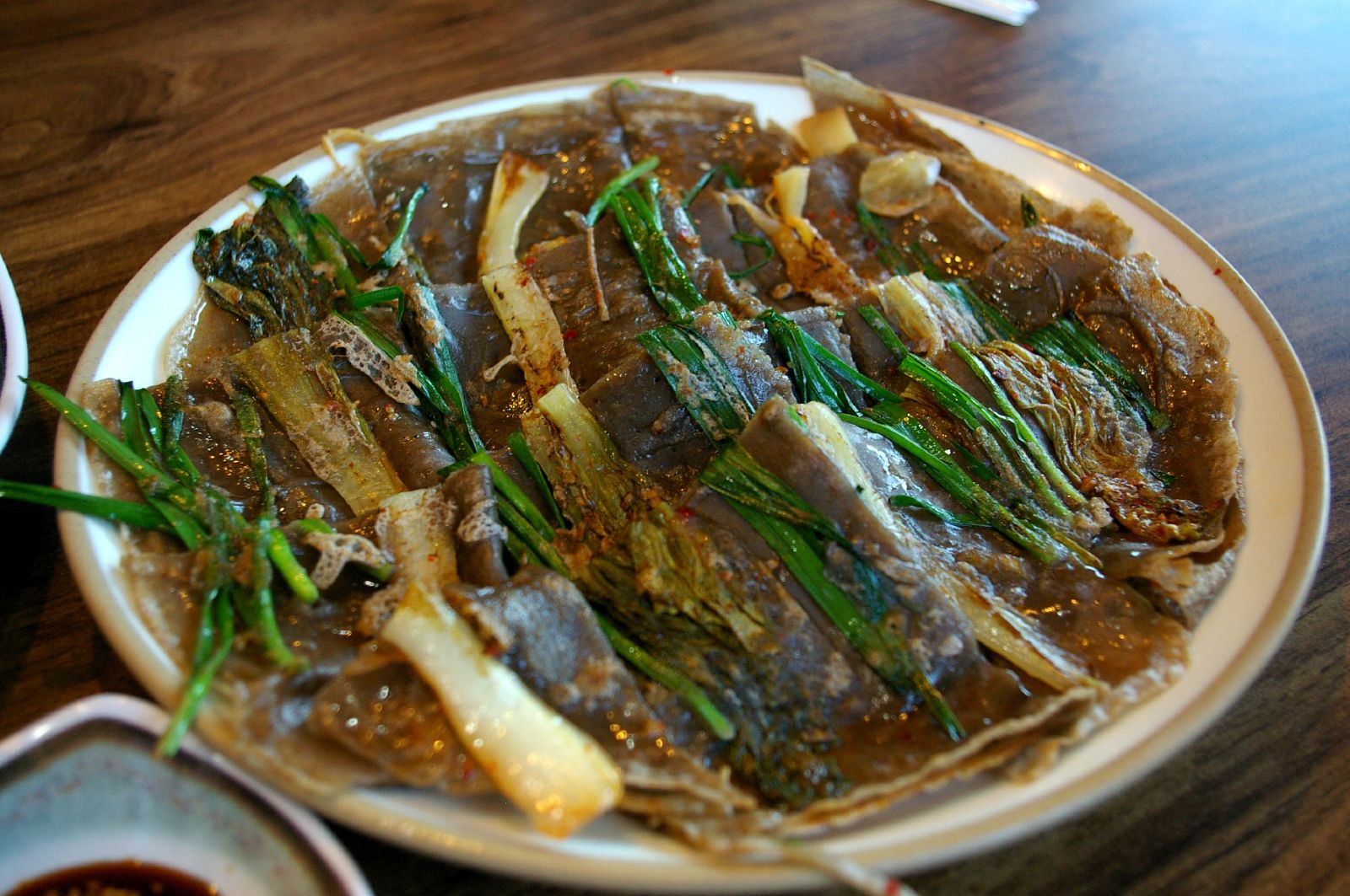 Gyeongju, North Gyeongsang province, South Korea